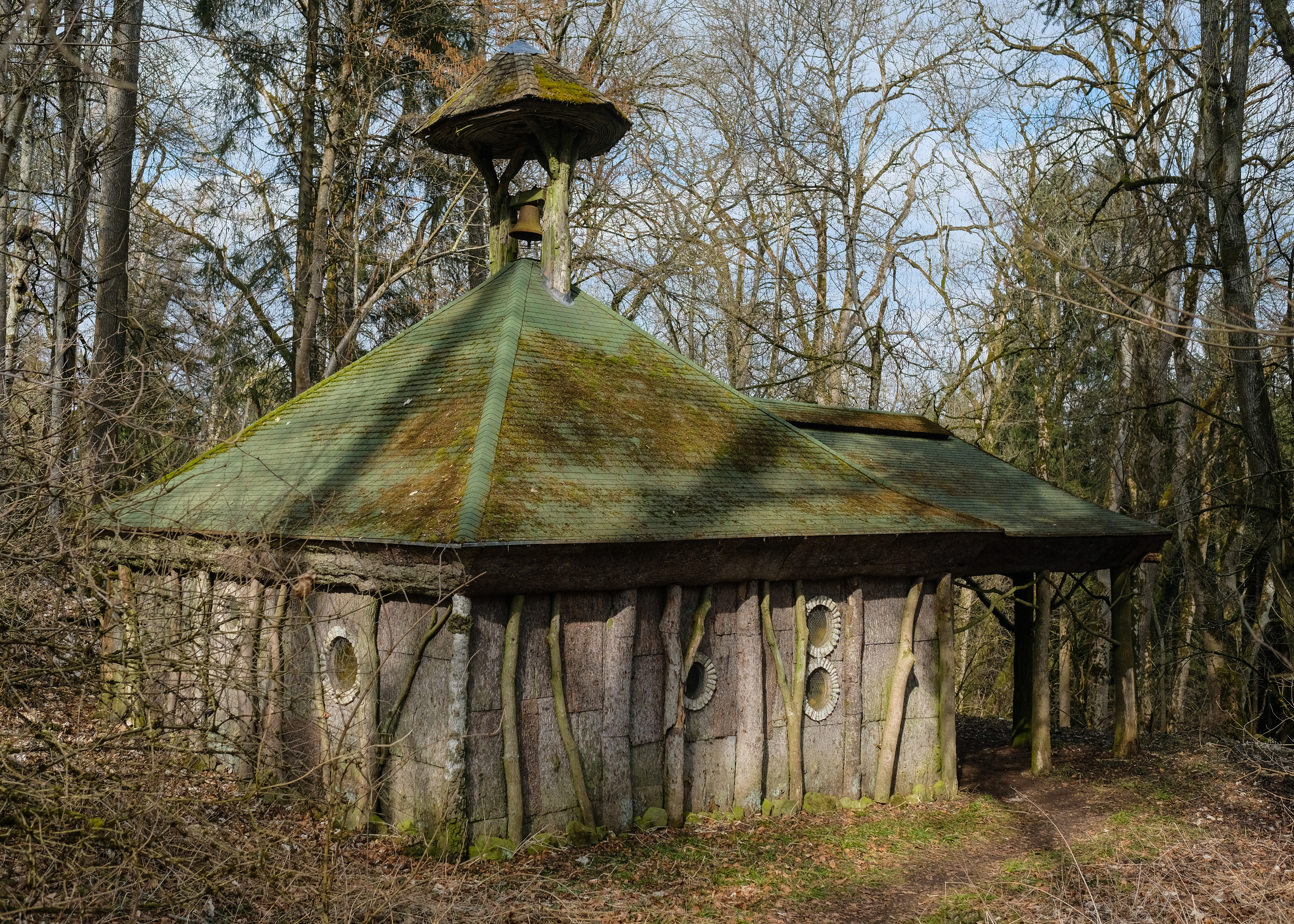 Hermitage Kapuziner-Eremitage Wartenberg, Geisingen, district Tuttlingen, Baden-Württemberg, Germany